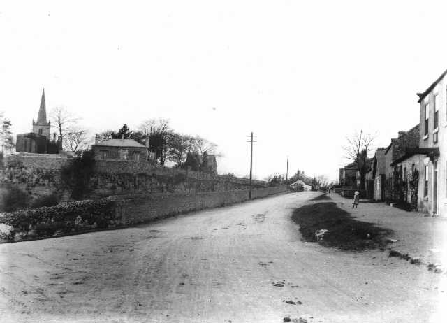 Photo of High Coniscliffe, County Durham, England. From old glass negative, photo taken 1876-1900.